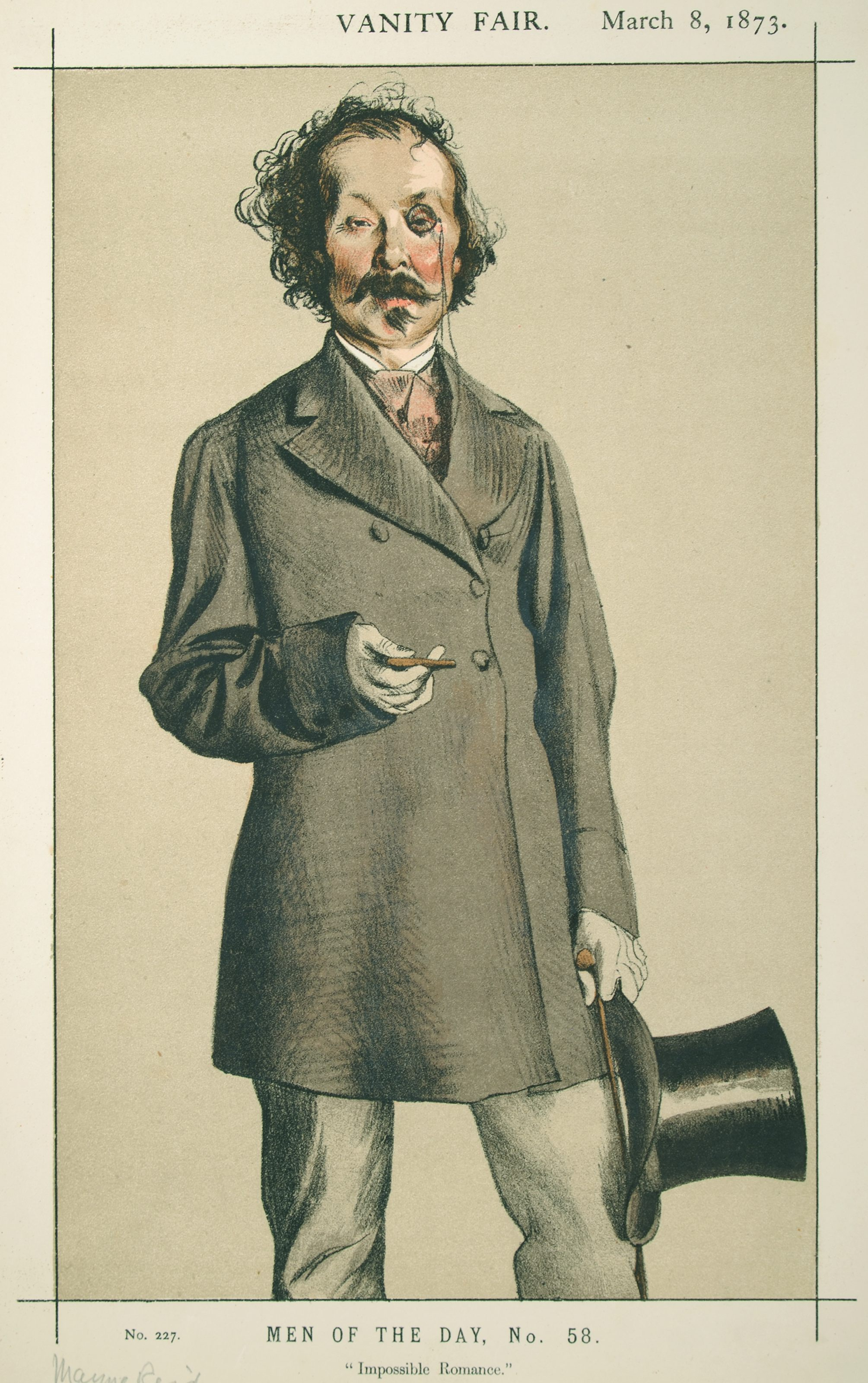 Men of the Day No.58: Caricature of Mr. Thomas Mayne Reid (1818-1883). Caption reads: "Impossible Romance"